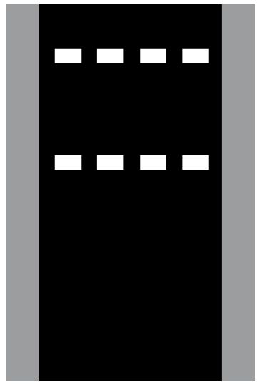 V 7b "Place for crossing". Road marking of the Czech Republic